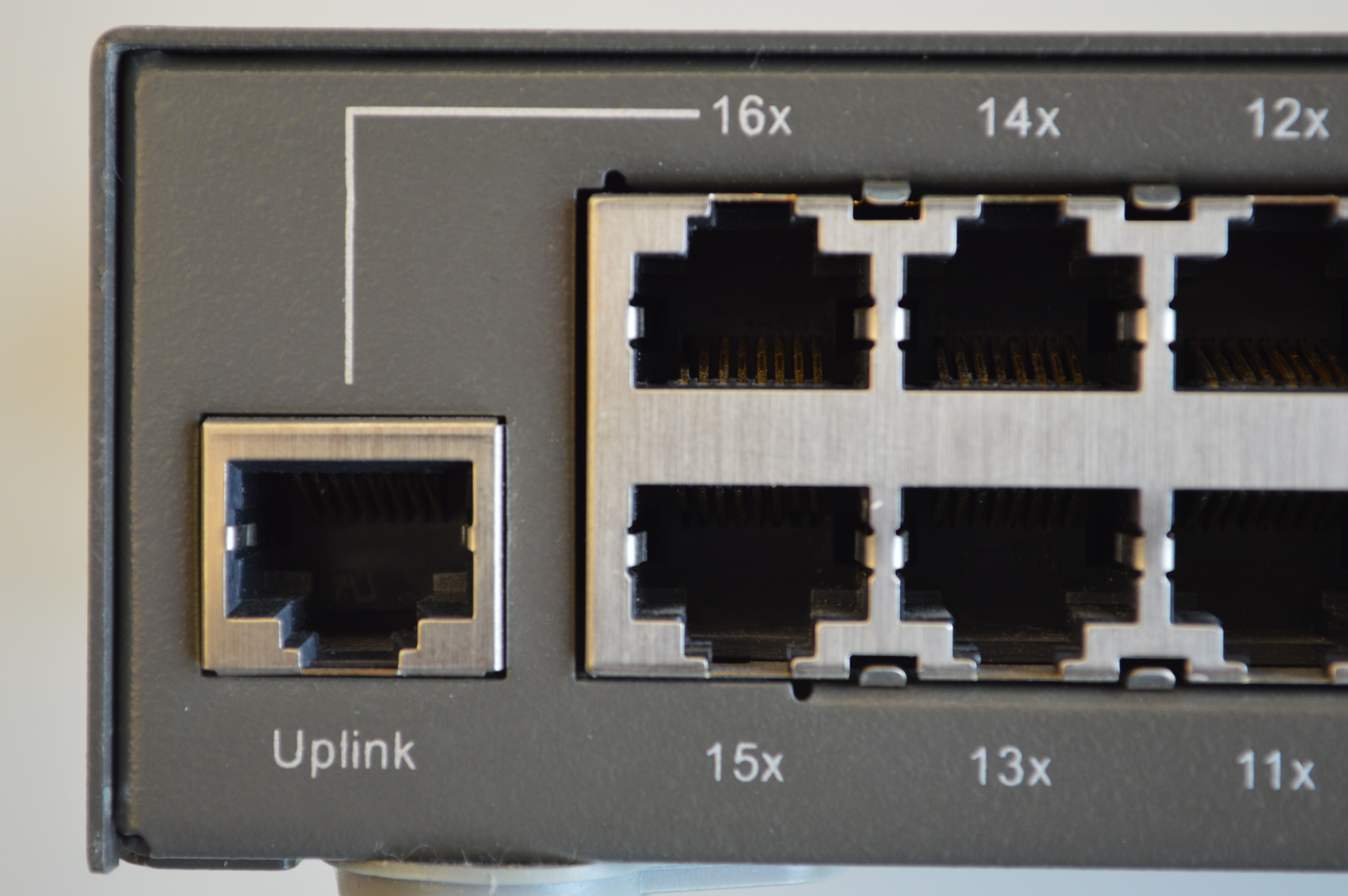 DES-1016D Fast Ethernet switch showing 16x port in both MDI-X and MDI "Uplink" pinout, 2001